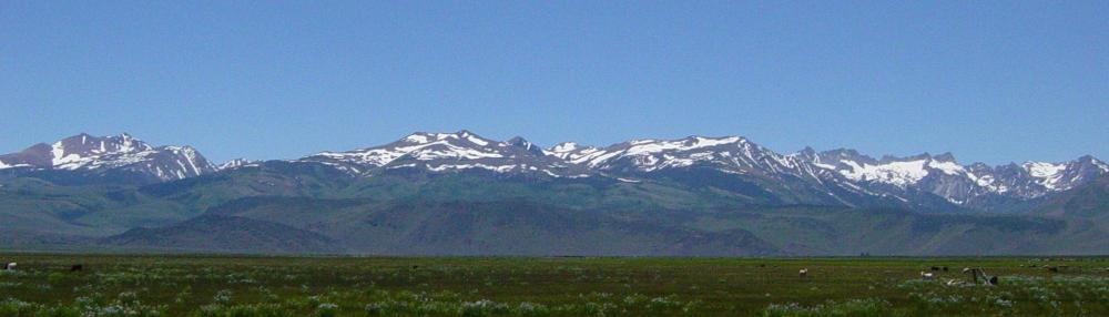 Sierra Nevada near Bridgeport, California, 2004